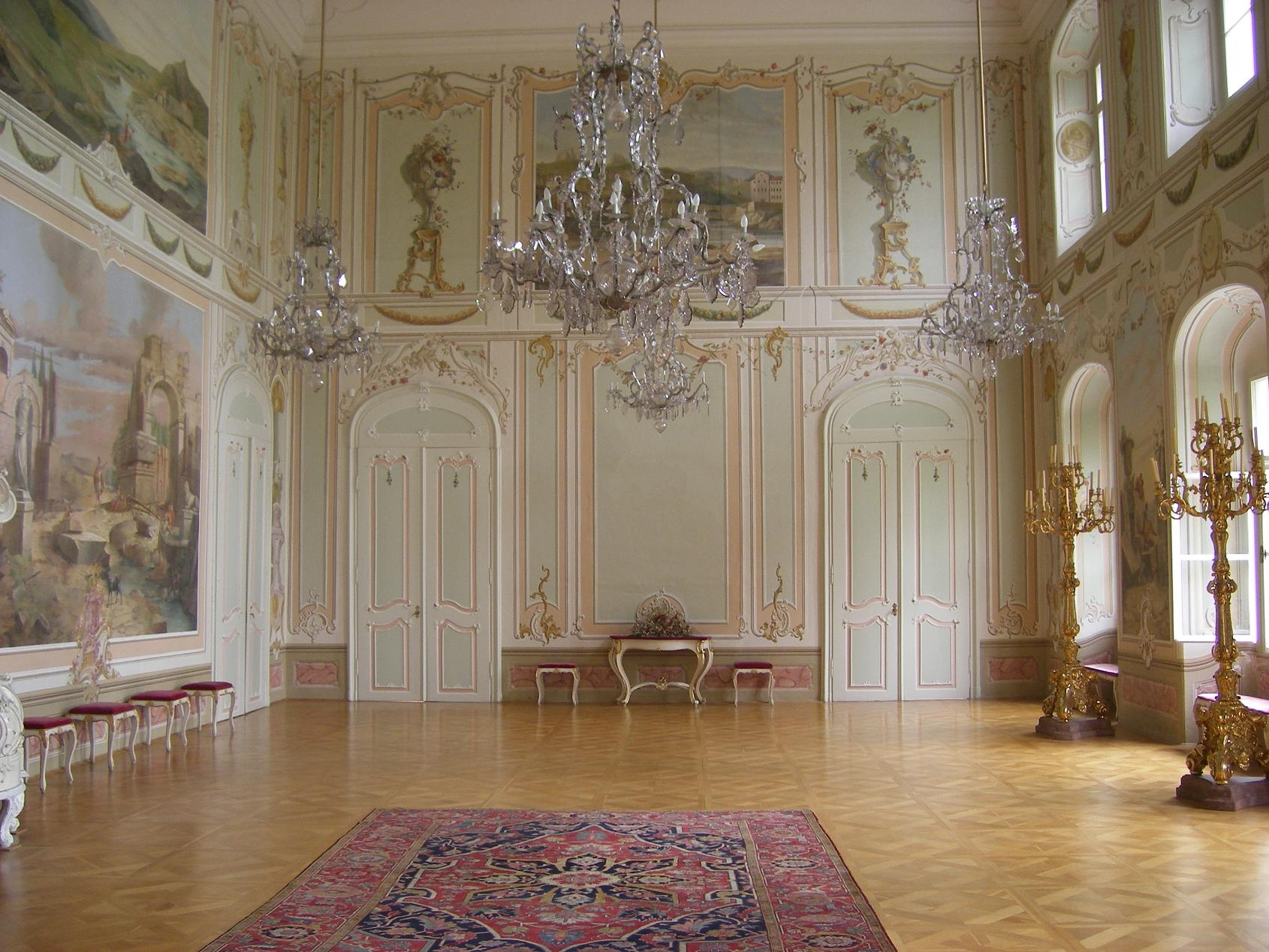 Palace / museum in Bruntál. Teutonic Knights Masters' residence hall